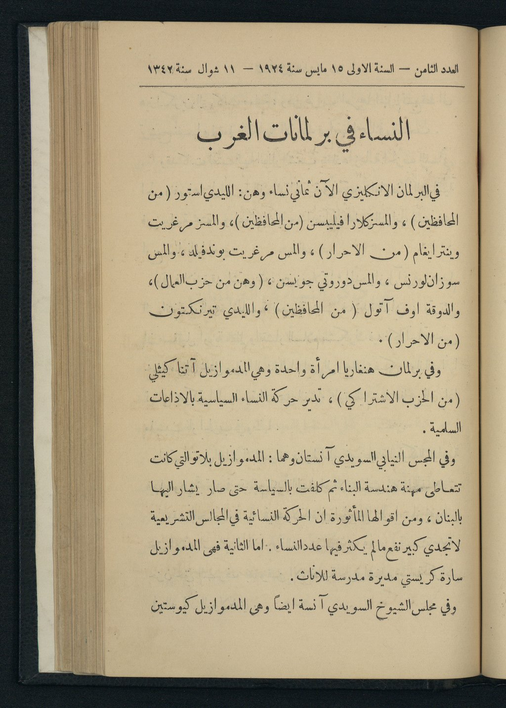 Layla was the first women's magazine to be published in Iraq. Launched in 1923, the magazine dealt with new and useful matters related to science, art, literature, sociology, and in particular to child-rearing and the education of girls, family health, and other matters pertaining to home economics. The establishment of national rule in Iraq was followed by the emergence of several magazines and newspapers dealing with women's issues. Layla marked the beginnings of the women's press in Iraq, and the magazine is credited with being one of the factors in the emergence of the Arab women’s movement. Published under the banner, “On the Way to Revival of the Iraqi Woman,” the magazine disseminated news about culture, education, and family affairs, as well as led a campaign for the liberation of women. Its editorial features included “The Crucible of Right,” “Tax News,” “Housewives Corner,” “Strange News,” “Rings of Magic Strings,” and others. The magazine also was concerned with medical research, literature, and poetry, and published works by the well known Iraqi poets al-Rasafi and al-Zahawi. One of the most important articles to appear in the magazine was the editorial, printed in Issue 6 on May 15, 1924, addressed to the Constituent Iraqi Assembly, asking it to grant women their rights. Layla published only 20 issues. Its last issue, dated August 15, 1925, included a sad article explaining to readers the magazine’s difficult financial situation. Soon thereafter, owner Paulina Hassoun left Iraq and the magazine ceased publication. Periodicals for women